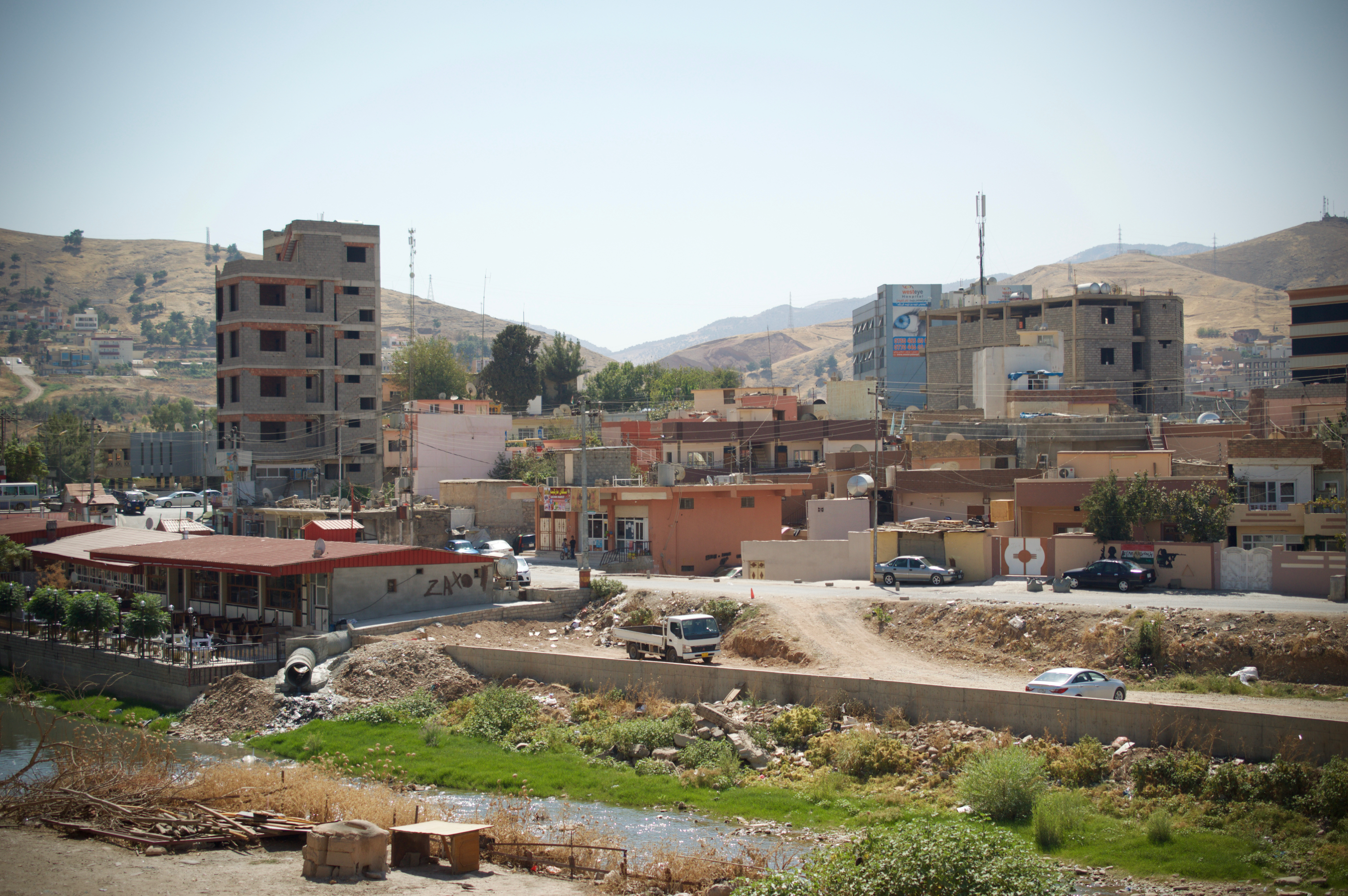 Zakho